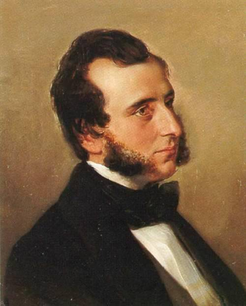 Portrait of Regnar Westenholz (1815-1866). From: På sporet 1847-1997. Jernbanerne, DSB og samfundet. Bind 1 - til 1914. Dampen binder Danmark sammen, by Poul Thestrup, Odense: Jernbanemuseet 1997.